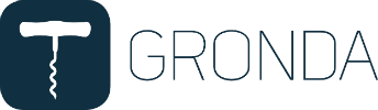 Logo of Gronda GmbH